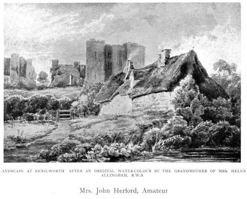 1905 print after page of Women painters of the world, from the time of Caterina Vigri, 1413-1463, to Rosa Bonheur and the present day, by Walter Shaw Sparrow, The Art and Life Library, Hodder & Stoughton, 27 Paternoster Row, London